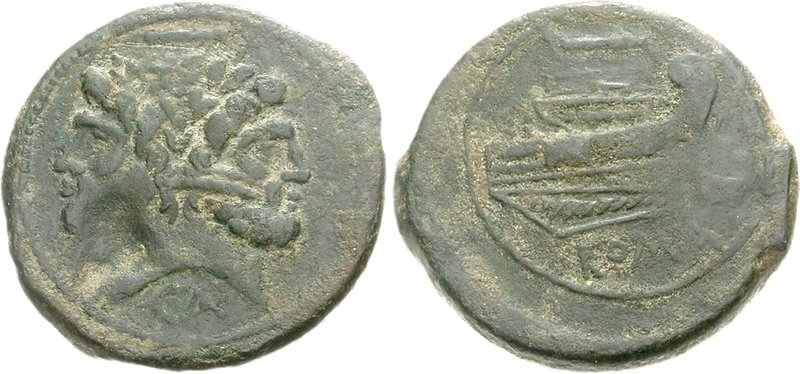 Unknown mint magistrate. 209-208 BC (or later). Æ As (22.84 g, 1h). Uncial standard. Canusium mint. Laureate head of bearded Janus; horizontal I (mark of value) above, CA below Prow of galley right; horizontal I (mark of value) above, CA to right. Crawford 100/1a (citing 6 specimens of all varieties in Paris); Sydenham 309a. VF, dark brown patina, earthen deposits, minor flan flaw on obverse. Rare.